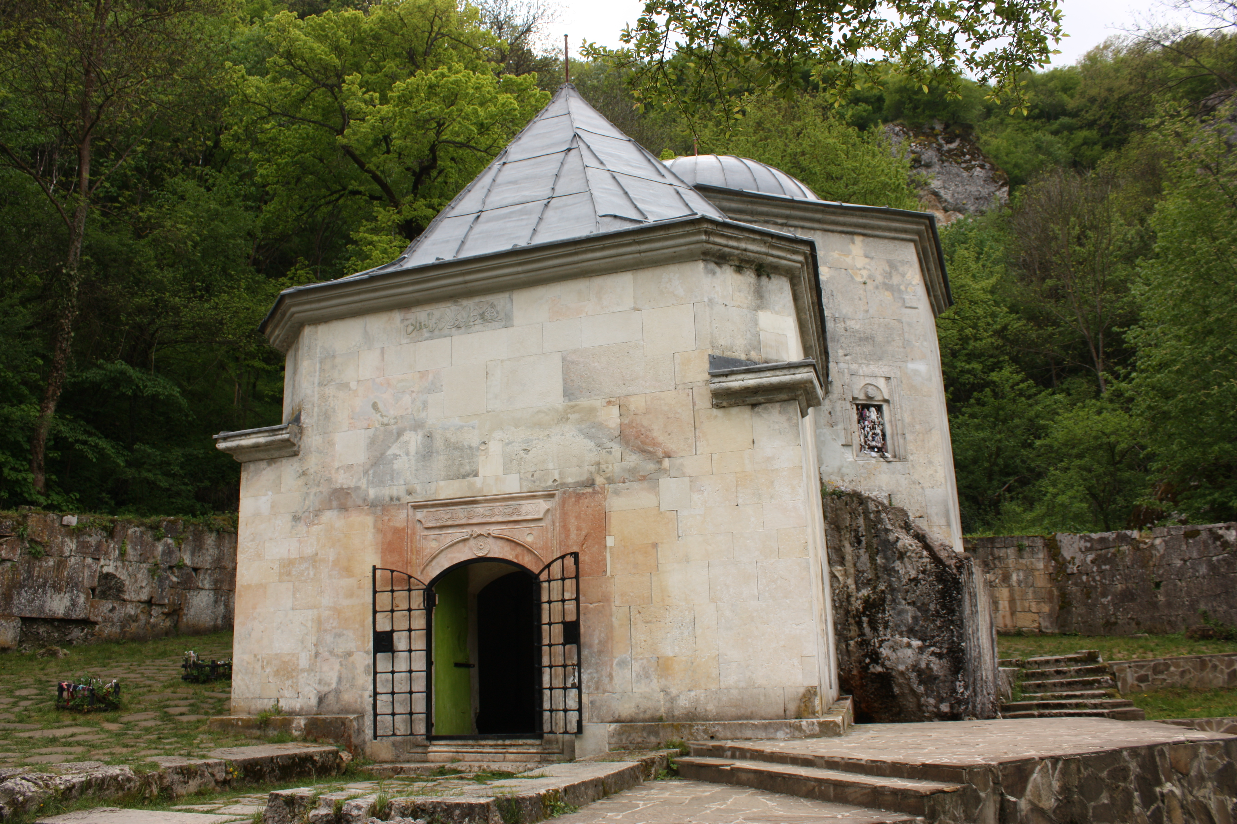 Muslim tomb which is located near the village Sveshtari, northeastern Bulgaria. The tomb is the most sacred shrine of the mystic Muslim sect of the "Alians", whose exact origin is uncertain. In 4 days...